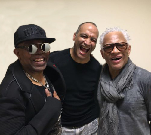 British-American musical trio Londonbeat. Picture taken in Poland, 2018.